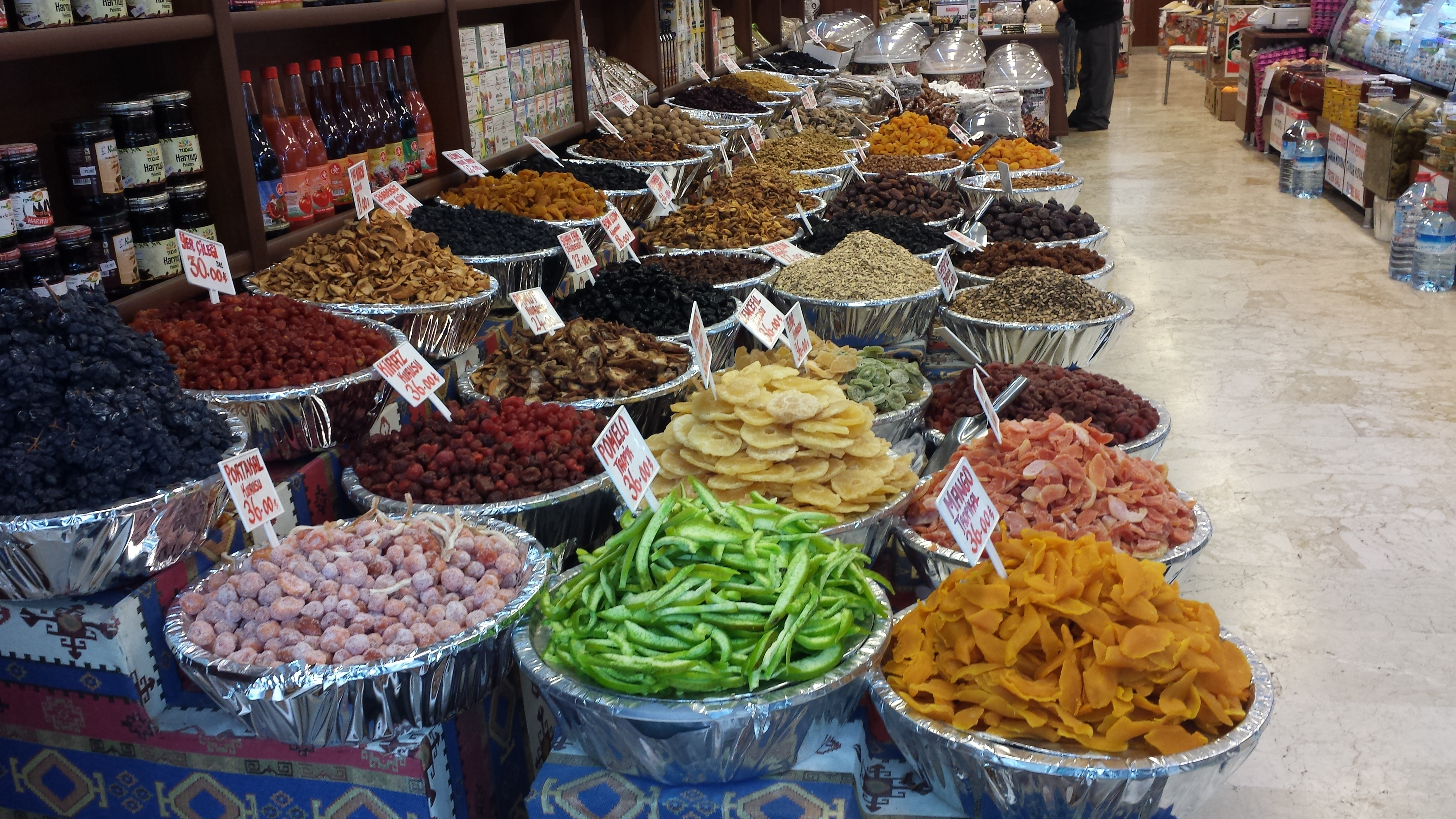 Spices Arabia Open Spices